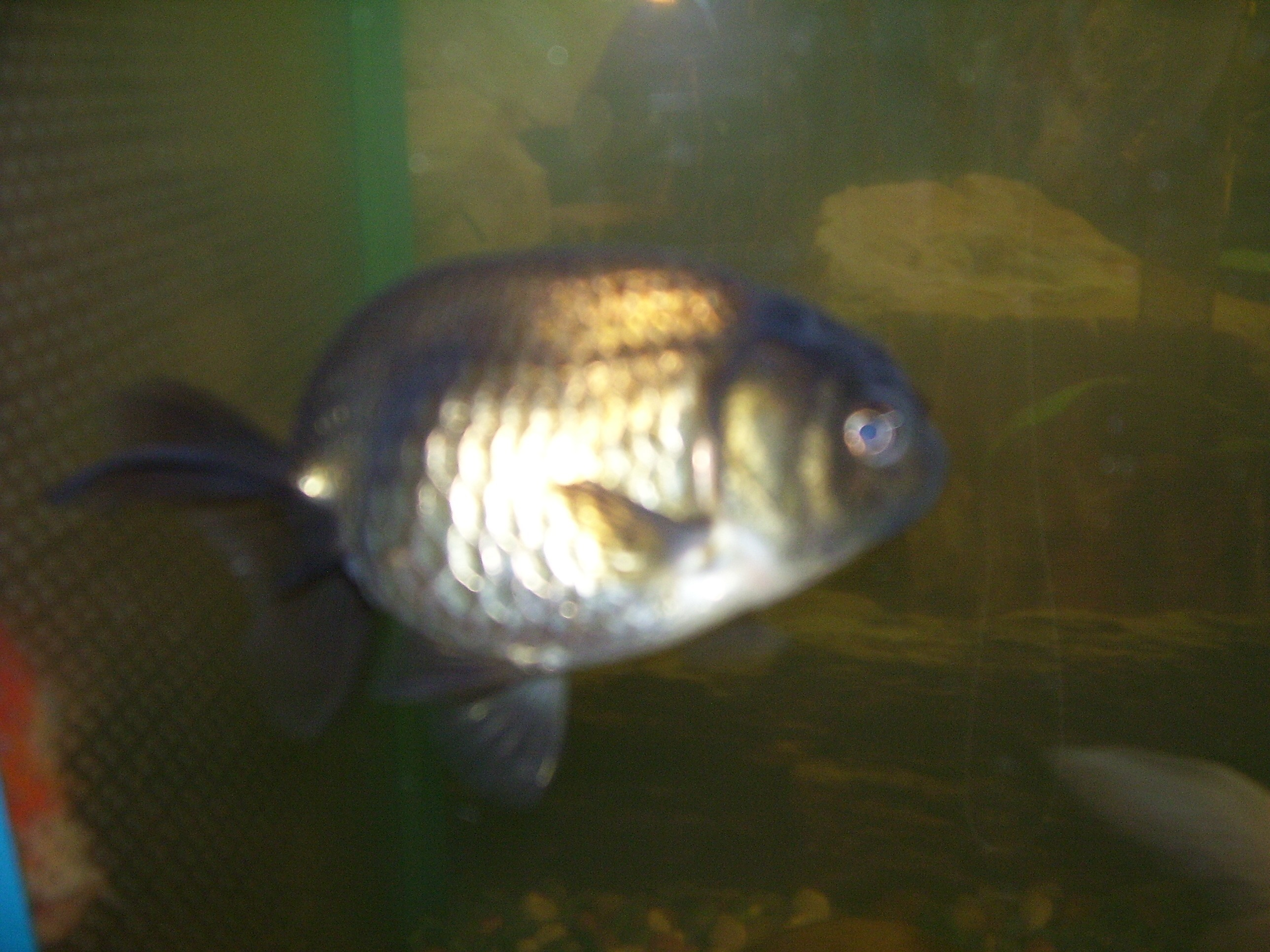 Chocolate Ranchu